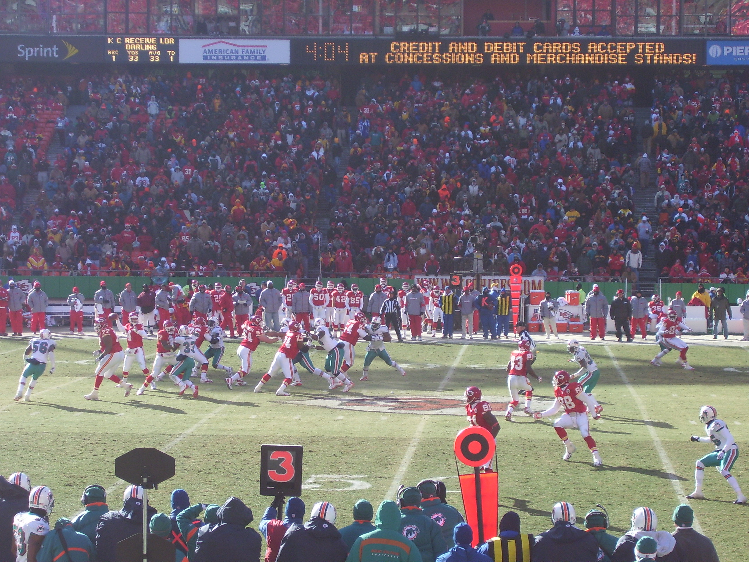 Miami Dolphins at Kansas City Chiefs, 21 December 2008. At Arrowhead Stadium in Kansas City, Missouri.